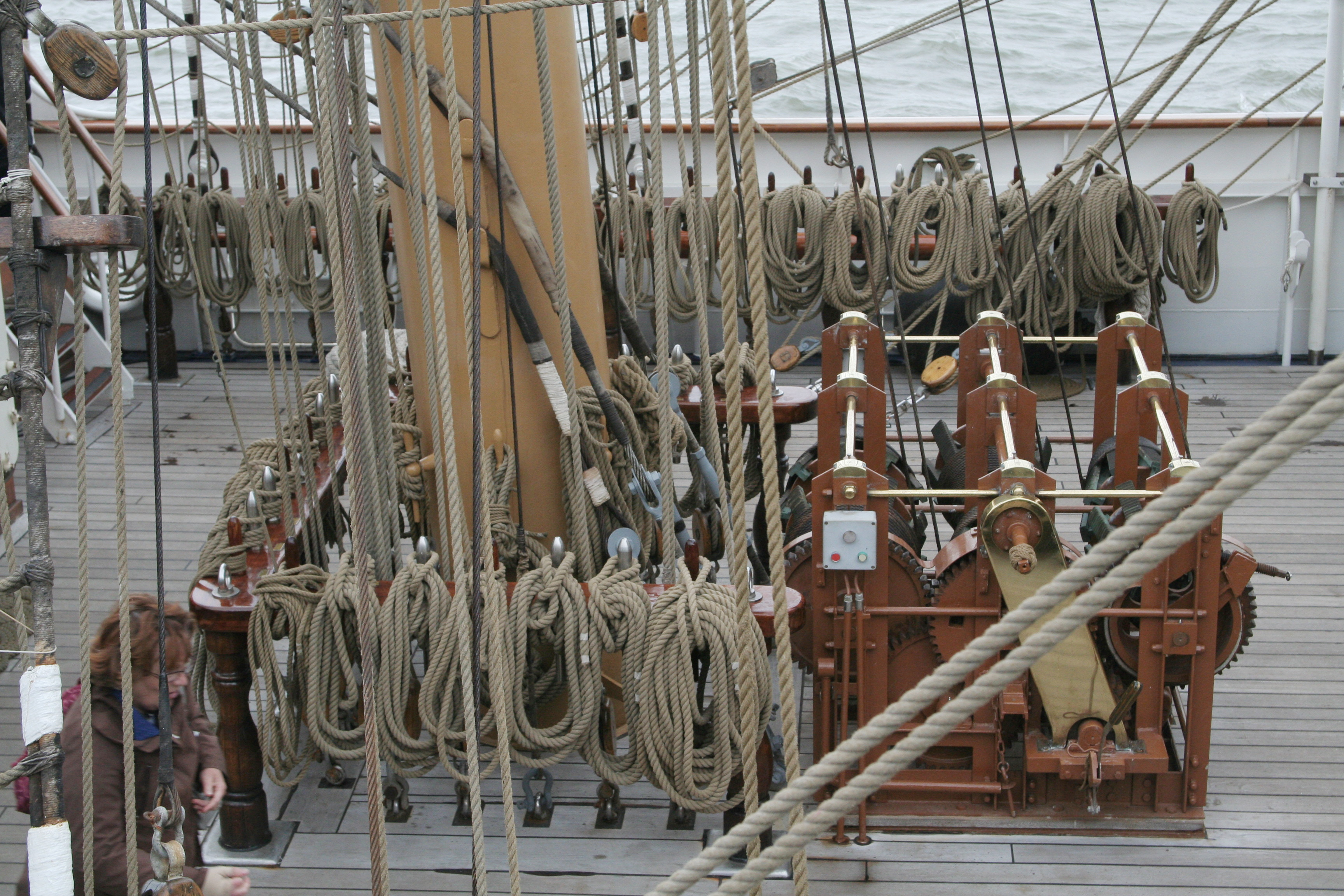 Event: "Armada Rouen 2008". Belaying pin rails.